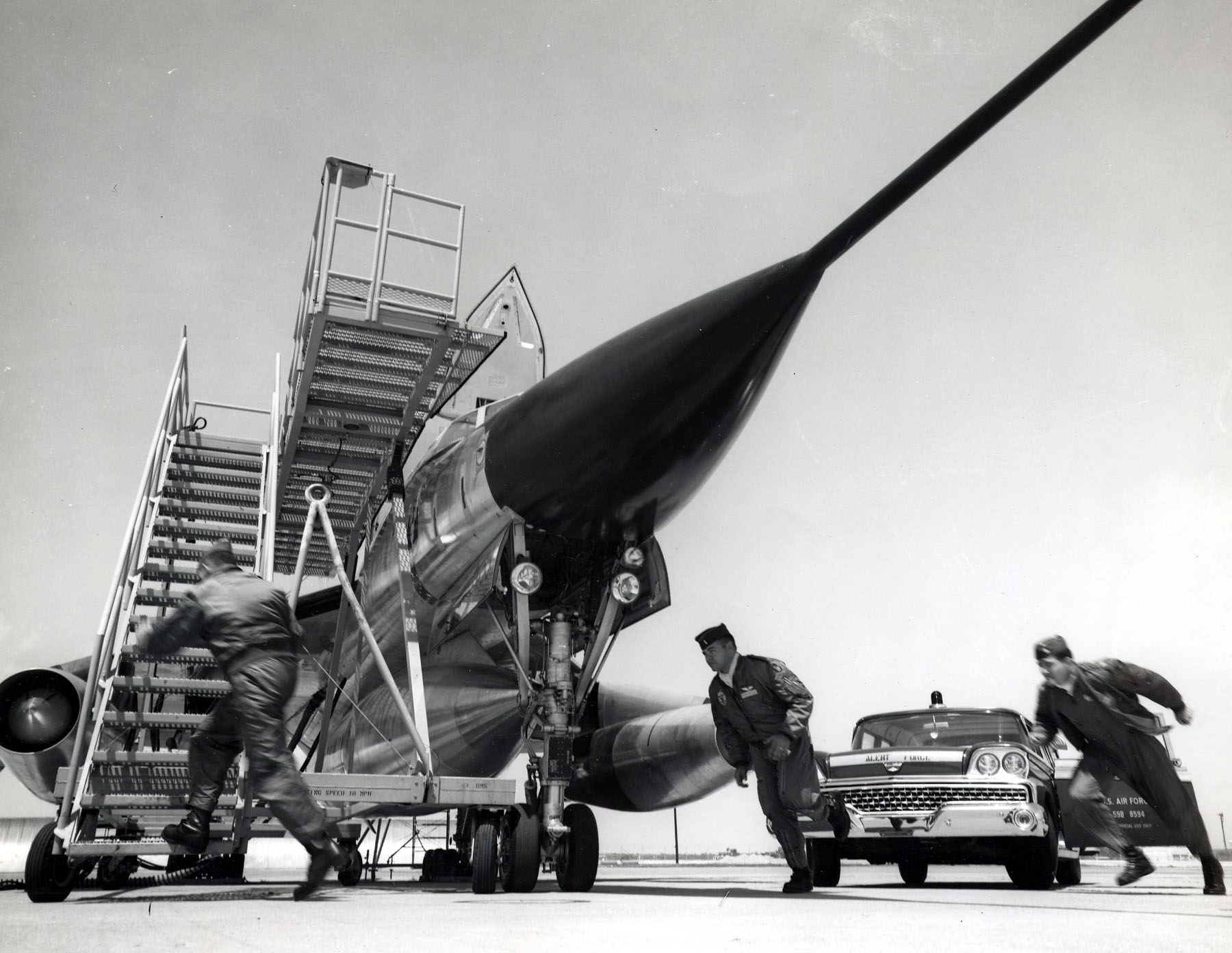 Convair B-58A Hustler crew scramble